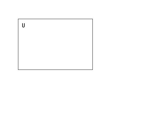 Representación gráfica own work I agree to publish this document under the GNU free documentation licenses MONIMINO 14/12/2006